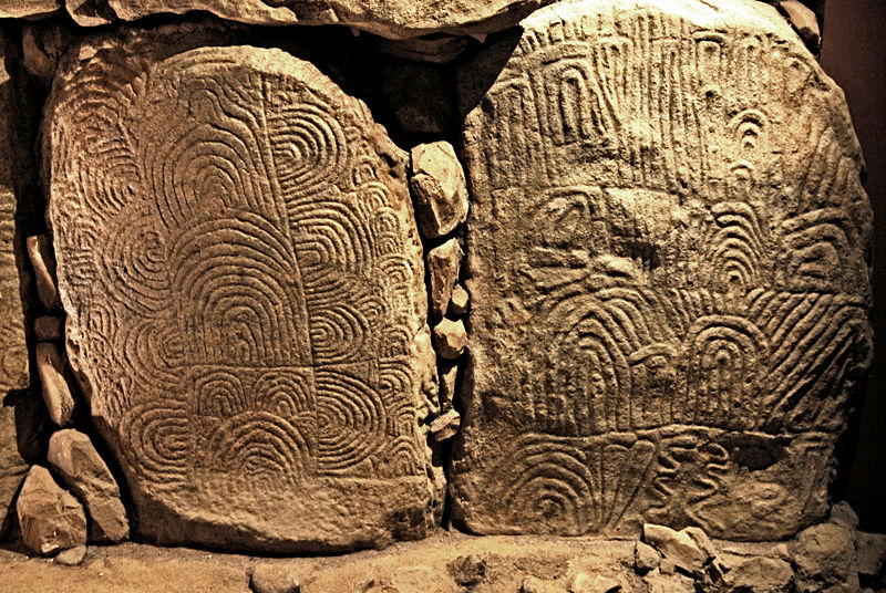 Image under GNU license from German wikipedia. Submitted by Joachim Jahnke, 2006 there: Bild:NOR1523.JPG